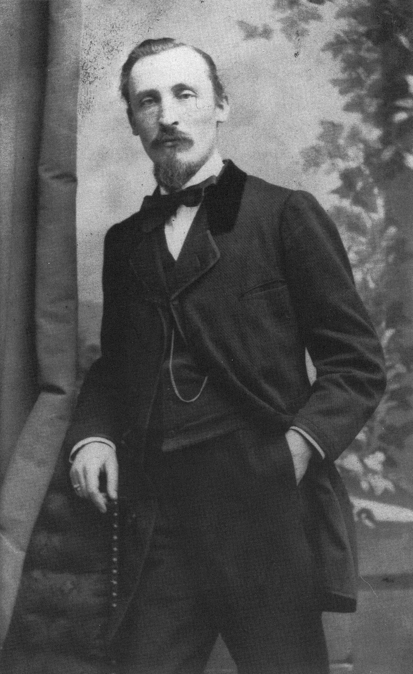 Heinrich von Stephan 1855